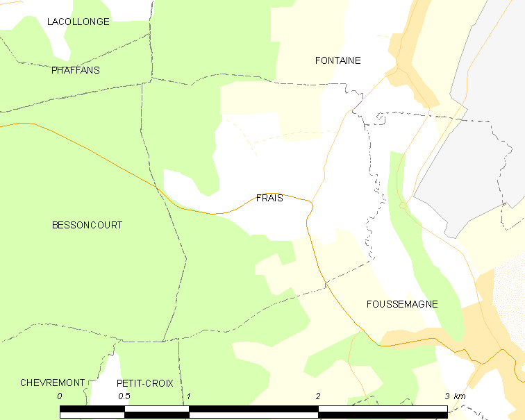 Map of French municipality Frais